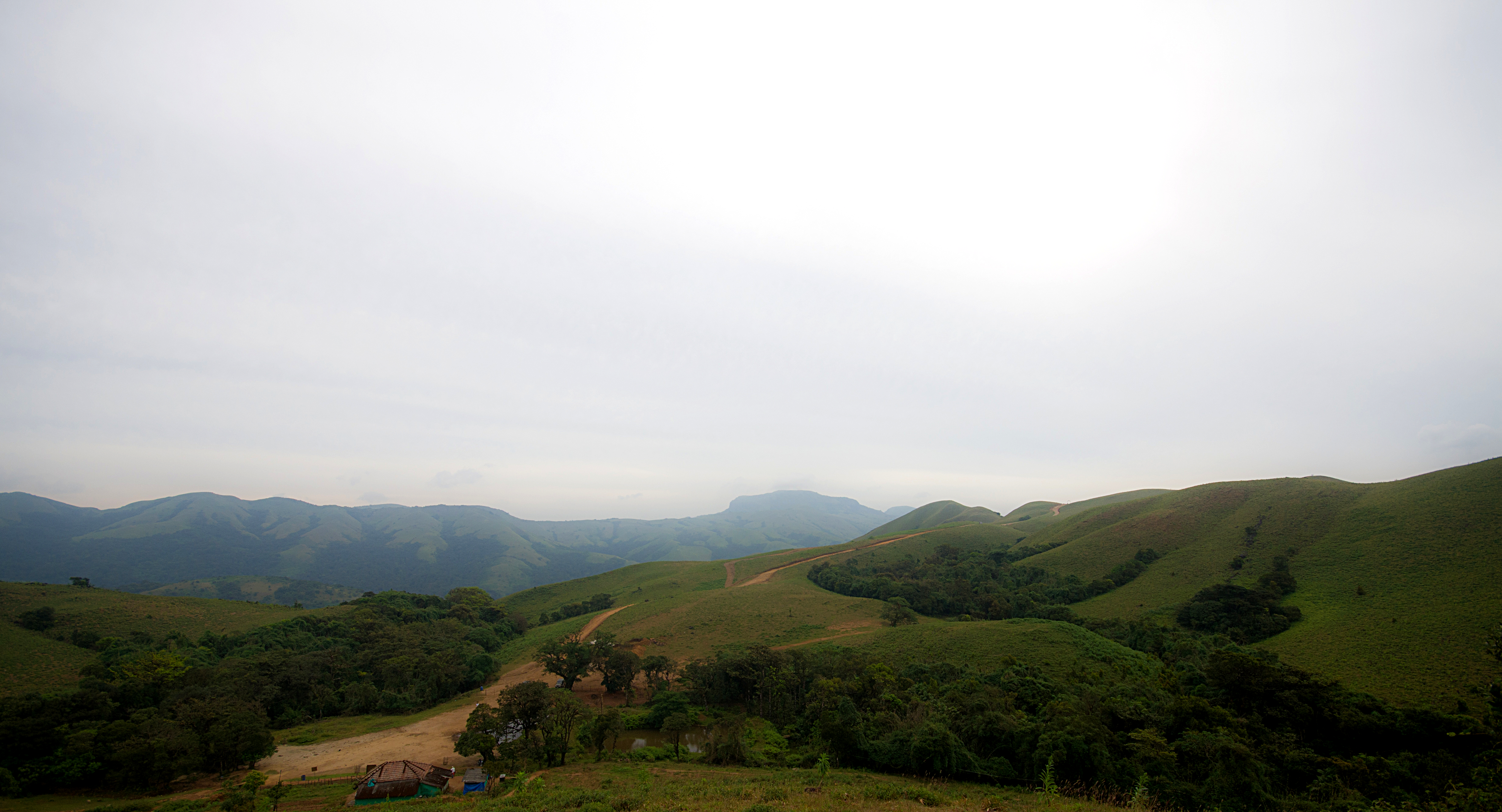 Shola forests seen in Pushpagiri Wildlife Sanctuary.